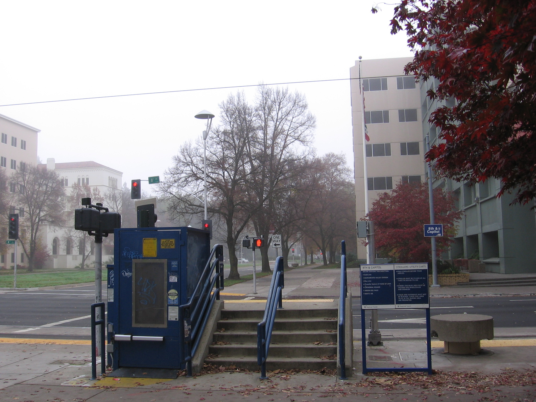 The 8th & Capitol light rail station in Sacramento, California, USA. View is looking east along the Capitol Mall toward the State Capitol Building (behind vegetation).